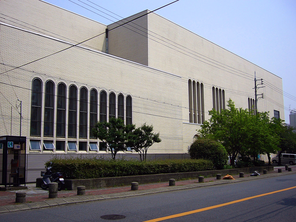 St. Mary's Cathedral, Osaka in Osaka, Osaka prefecture, Japan.